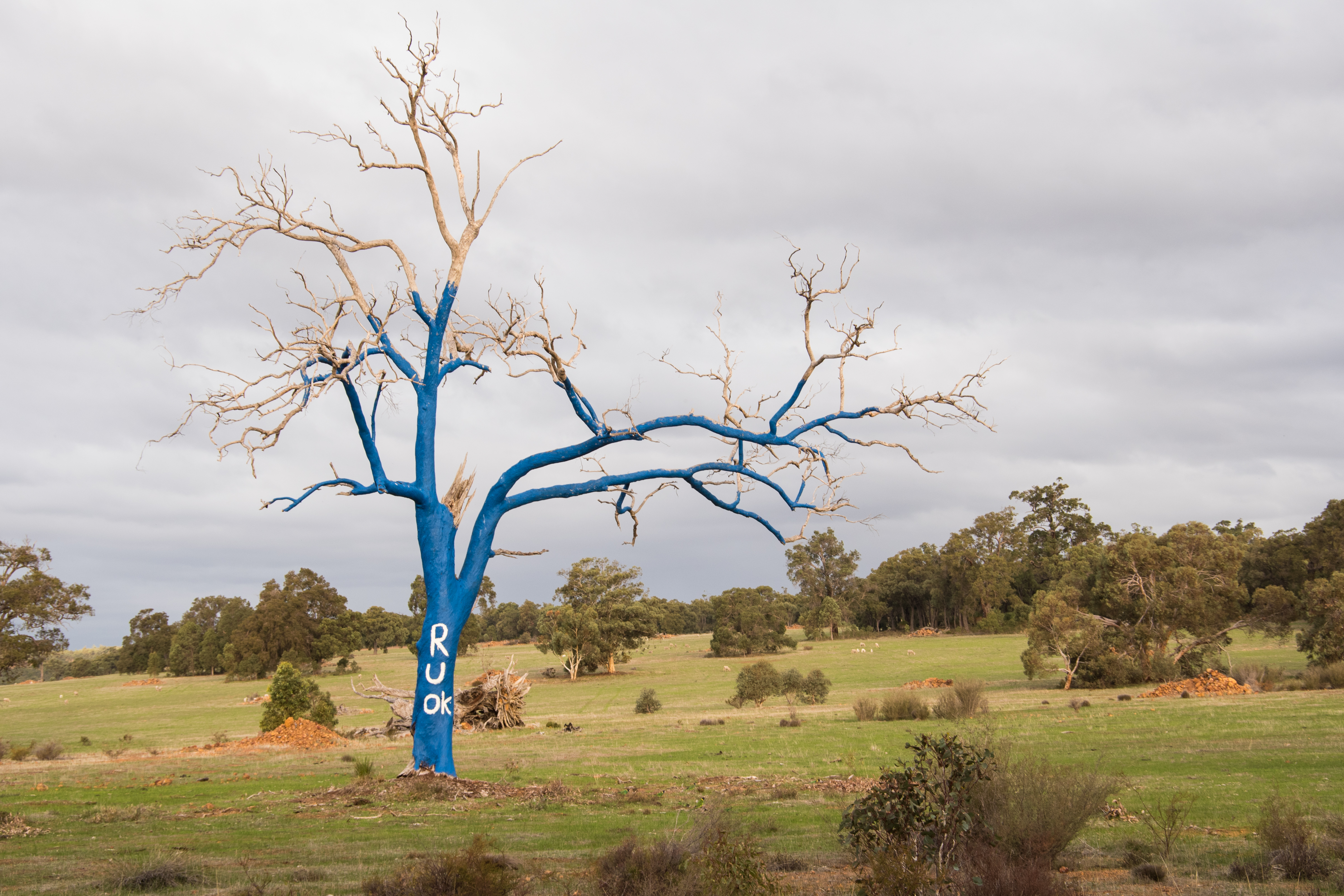 sign R U OK on a tree to support Suicide prevention in Australia